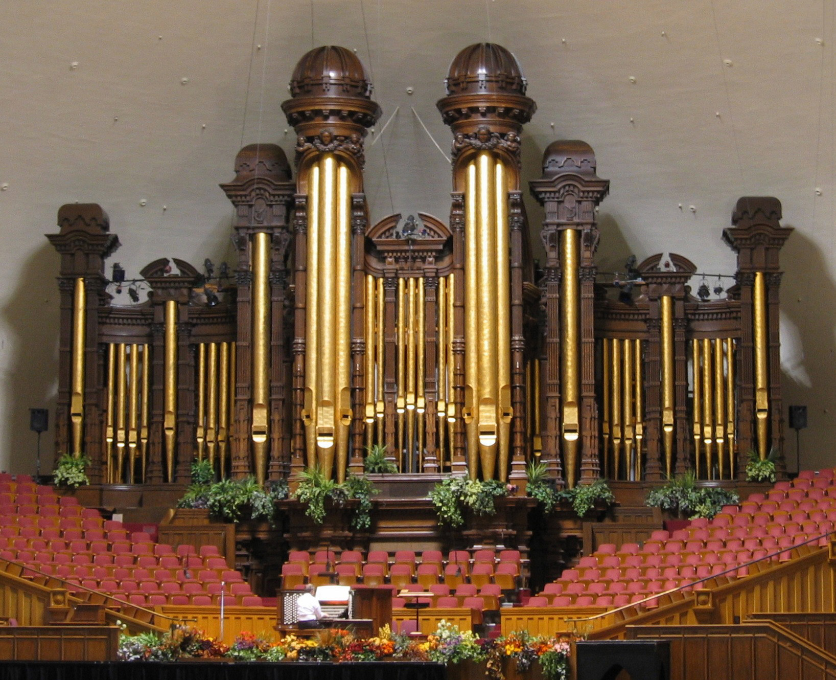 View of the pipes and console of the Salt Lake Tabernacle organ in Salt Lake City, Utah.